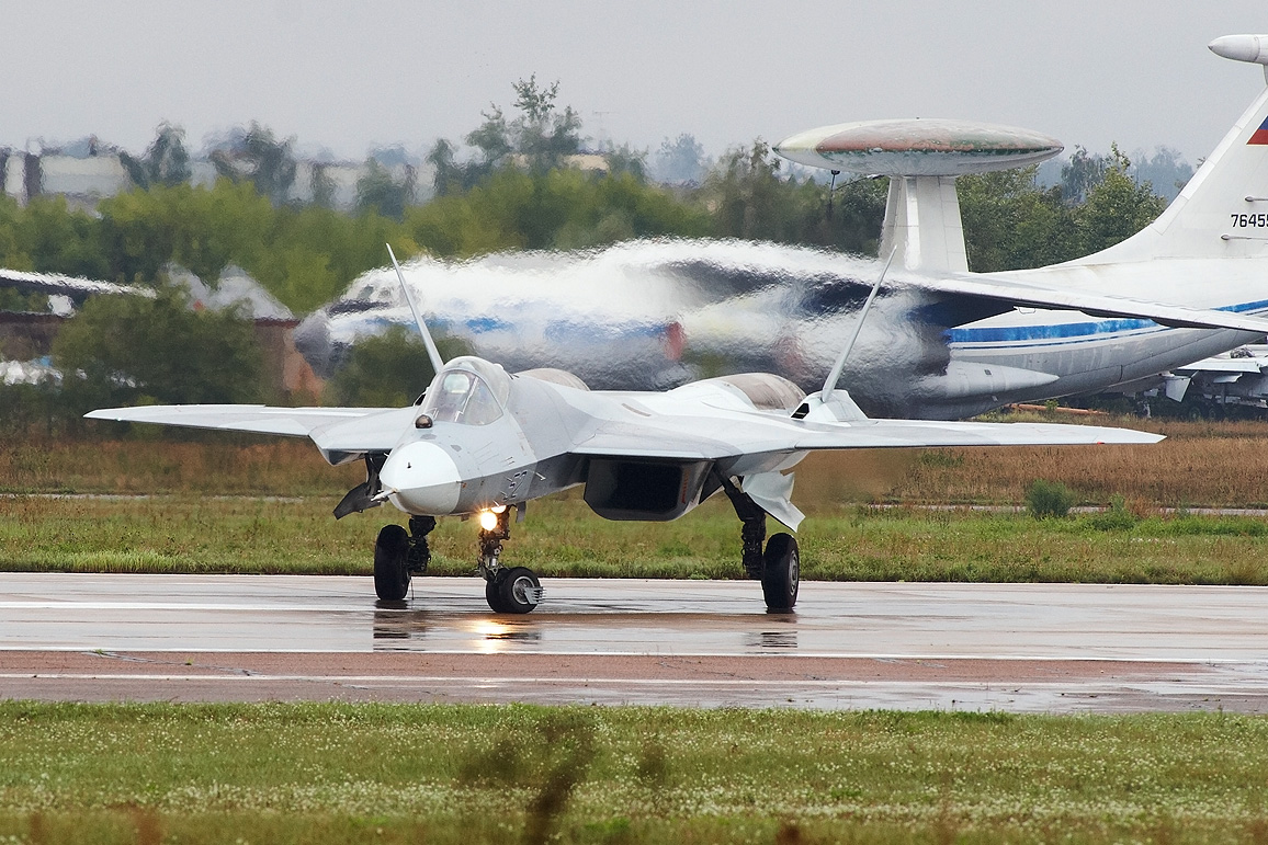 Sukhoi PAK FA on MAKS 2011